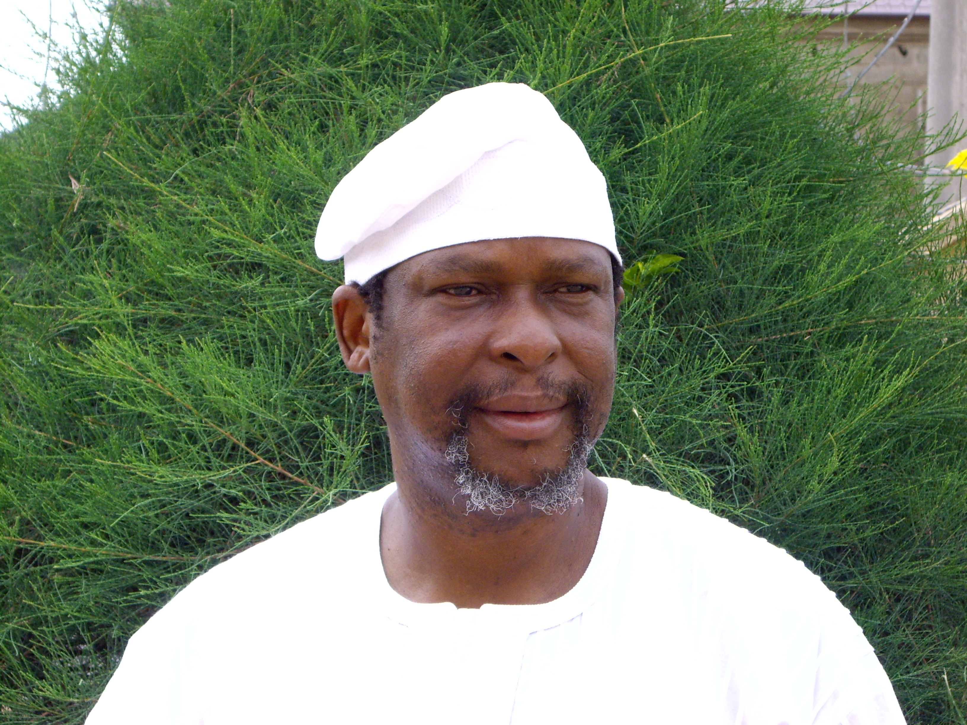 Picture of Robert Ajayi Boroffice in Abuja, Nigeria